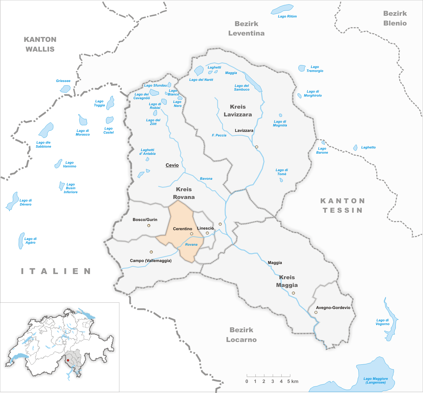 Municipality Cerentino